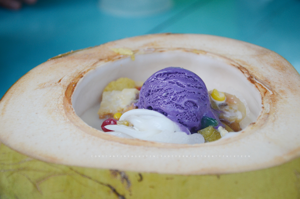 Apareja Buko Halo-Halo Marbel/Koronadal.Read my Blog of Koronadal City, formerly Marbel.